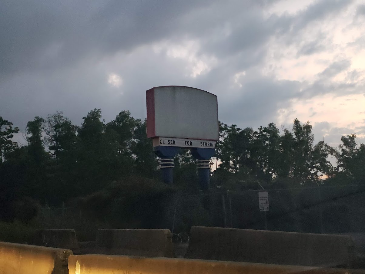 Six Flags New Orleans sign from May 2019